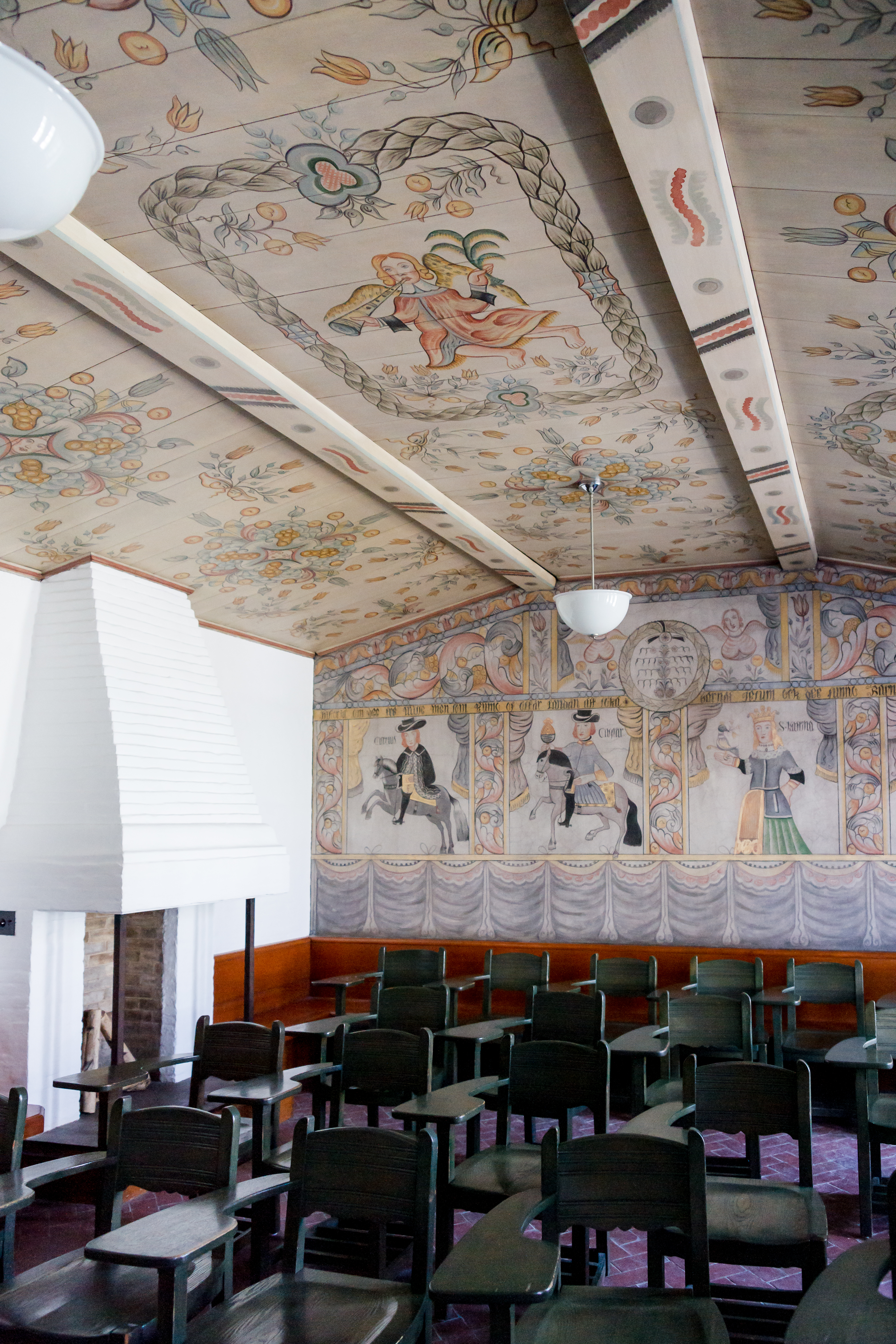 Swedish Nationality Room in the Cathedral of Learning at the University of Pittsburgh